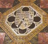 Catherine Howard's Tomb